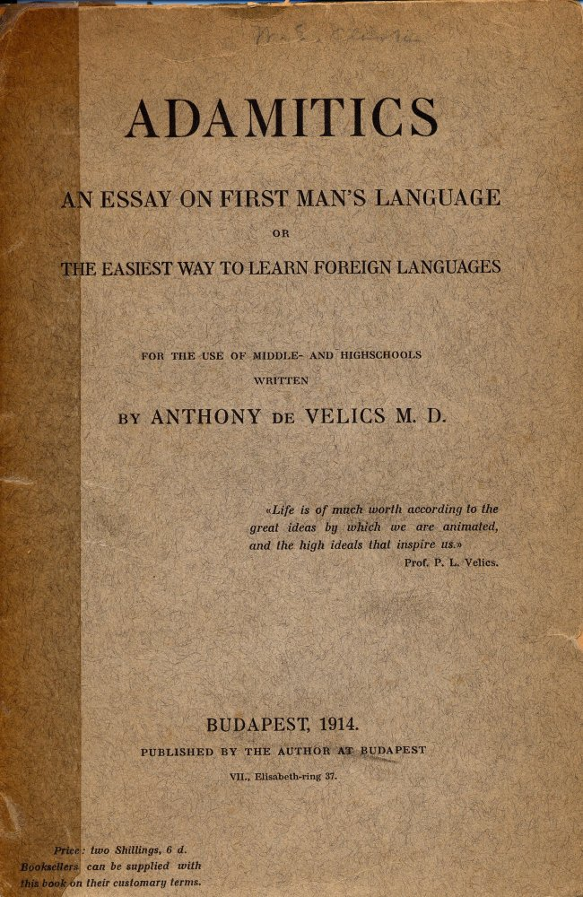 Cover of book "Adamitics. An essay of first man's language or easiest way to learn foreign languages", by Antony de Velics vel Antal Velics, 1914.